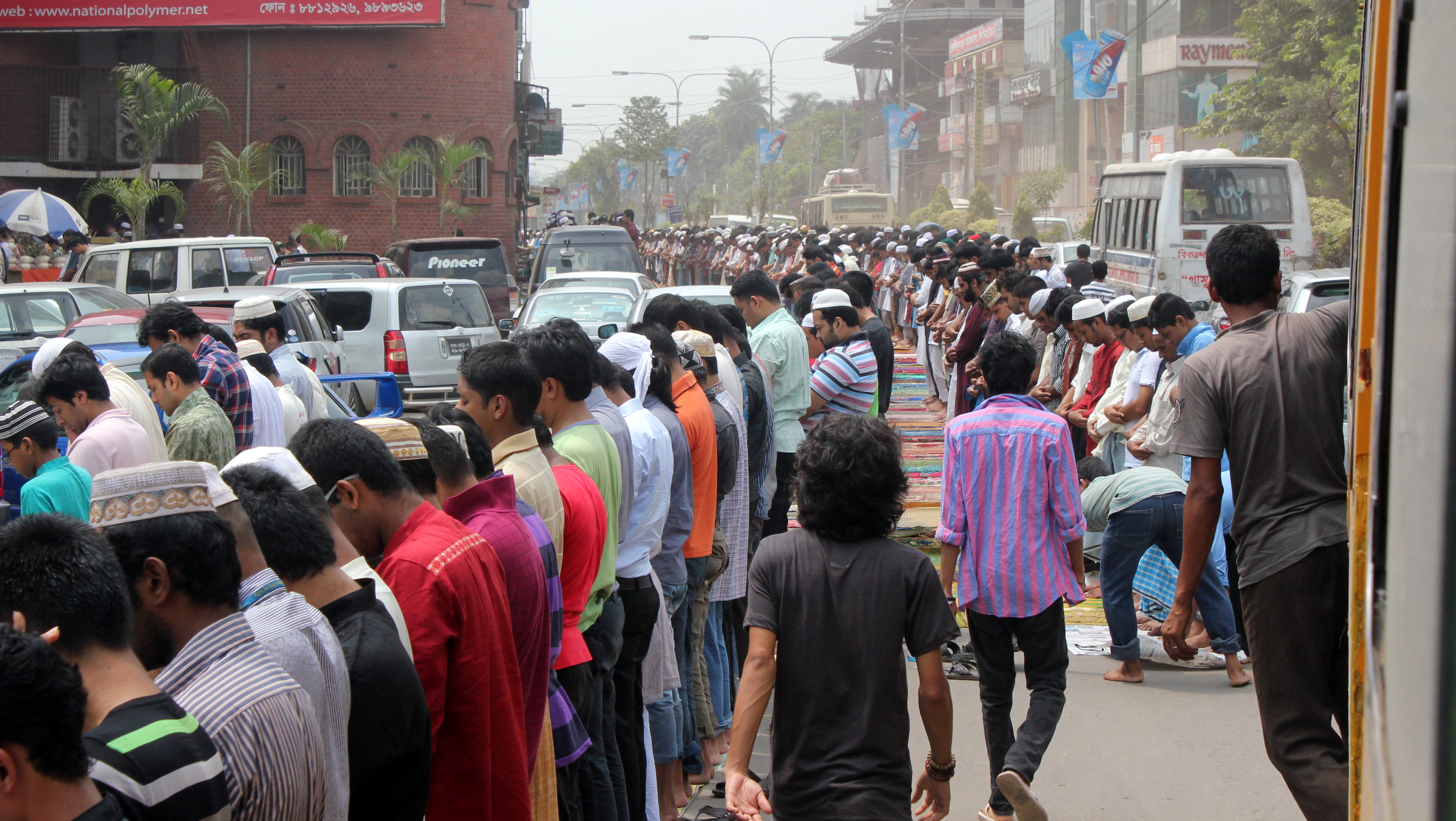 Saying Juma Namaz (Friday prayer for Muslims), Dhaka, Bangladesh.